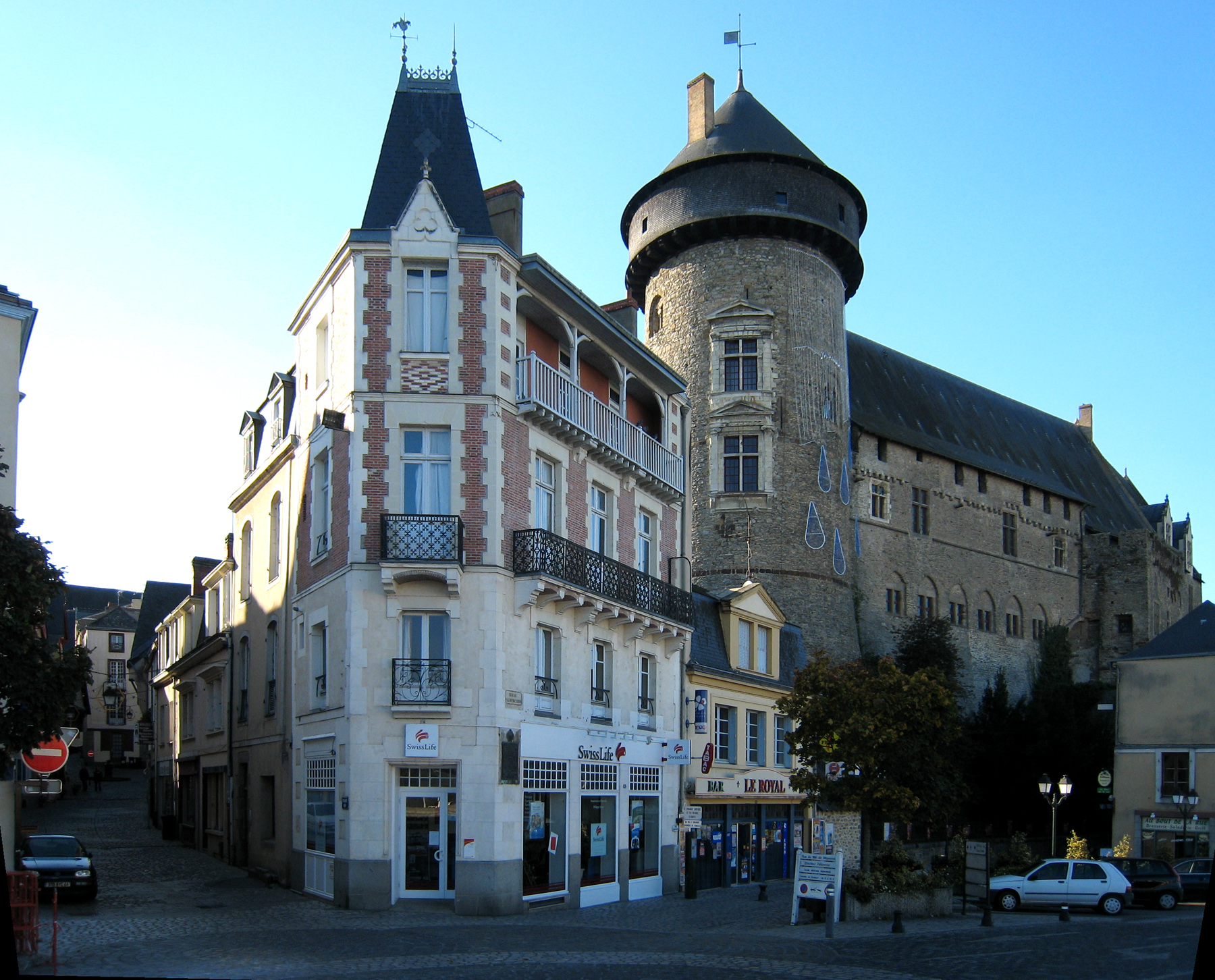 City of Laval, located on the river Mayenne in the county of Mayenne/France; town - old castle